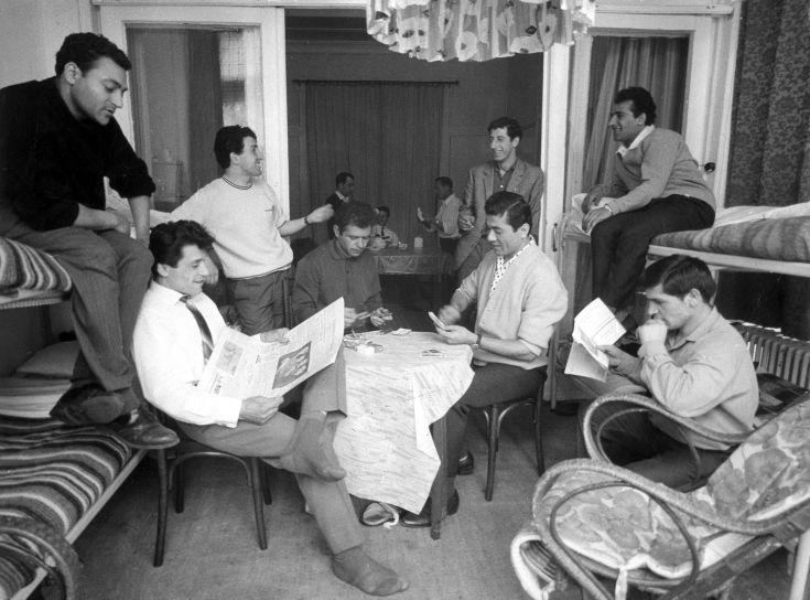 Nationaal Archief/Spaarnestad Photo/Peter Mokveld